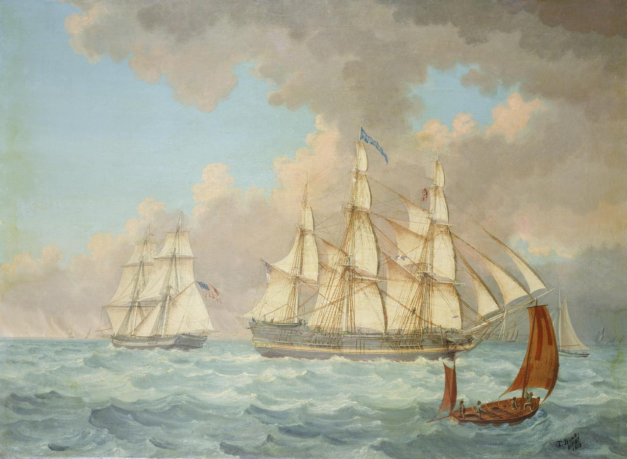 This painting shows a view across open water towards an East Indiaman and an American vessel in the middle ground. A small cutter can be seen in the right foreground.